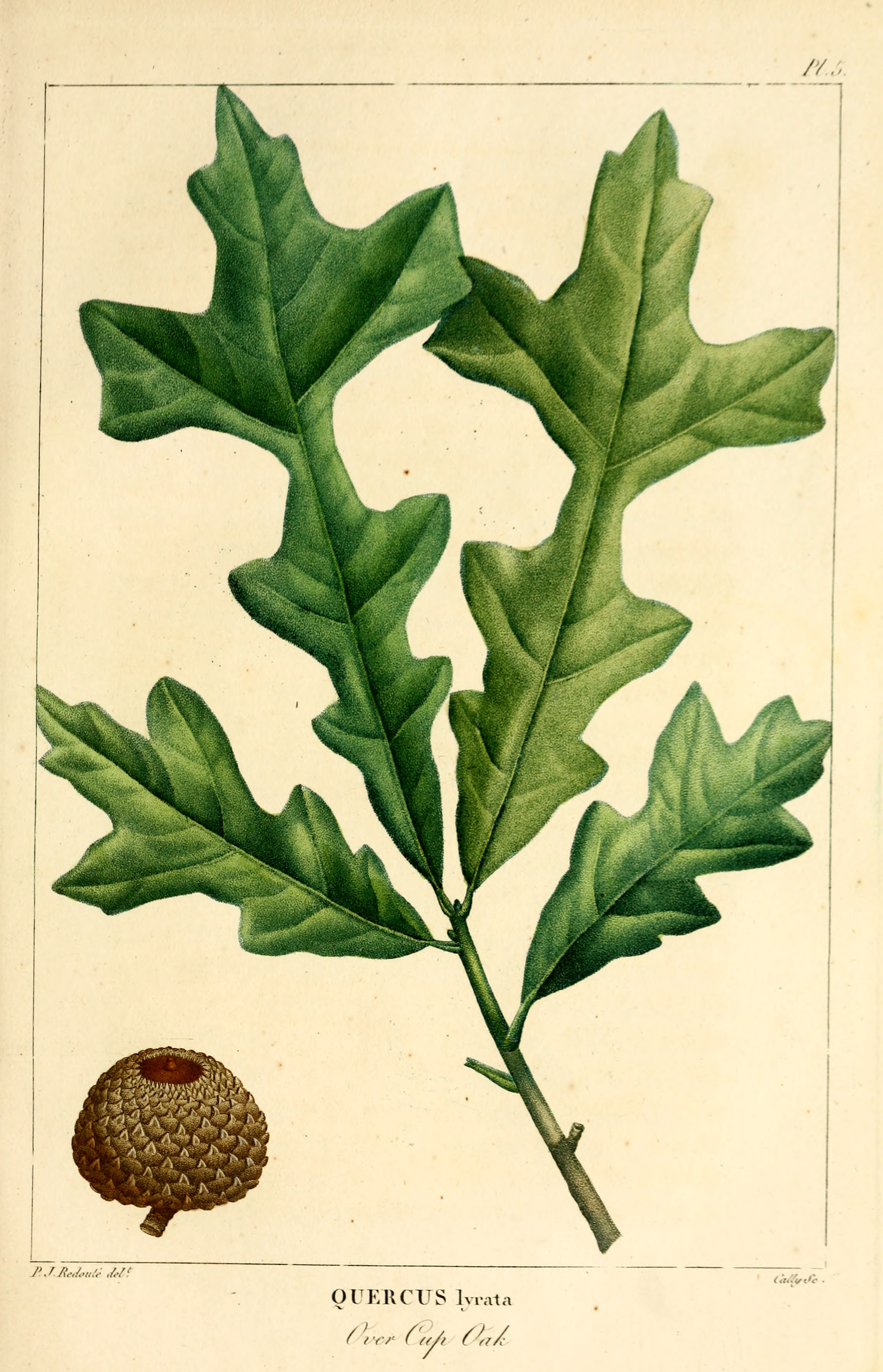 Quercus lyrata - overcup oak